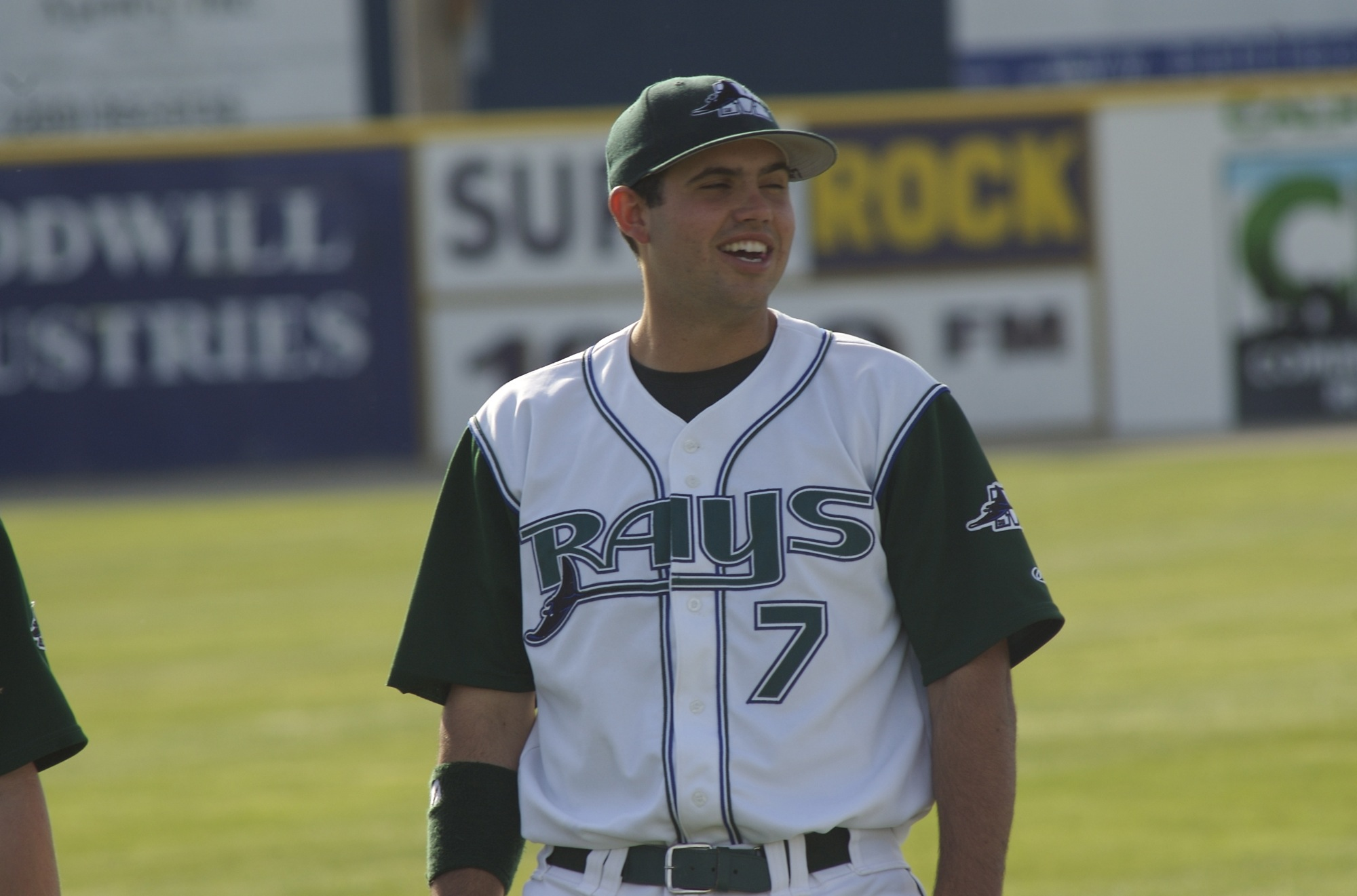 Rhyne Hughes of the Southwest Michigan Devil Rays in Battle Creek, Michigan in 2006